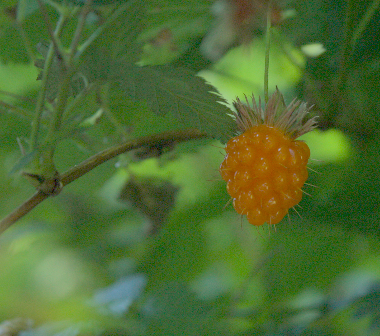 For more information on this class, please see the full report here